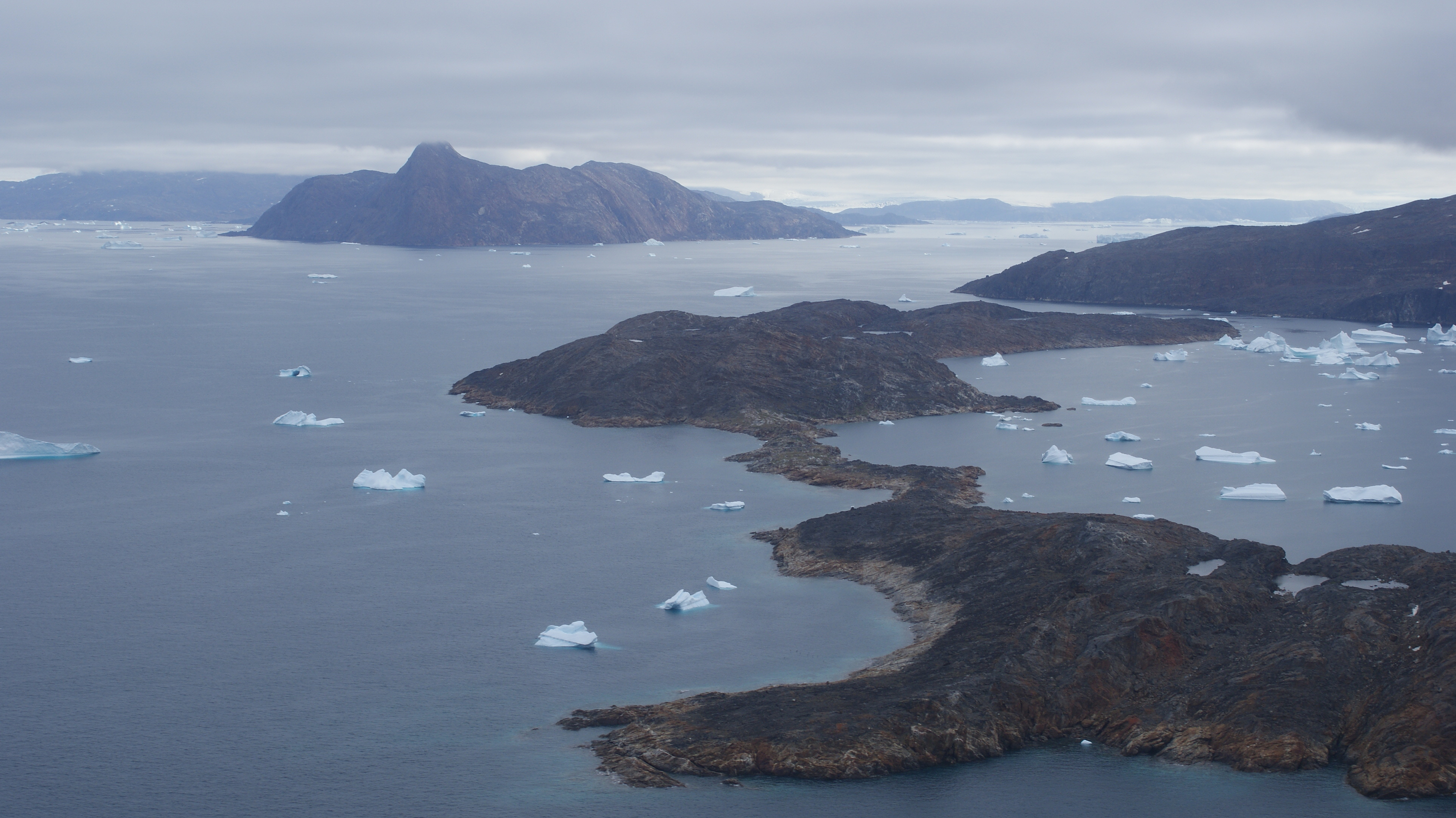 Aerial view of Kittorsaq Island, Sugar Loaf Bay, Upernavik Archipelago, Greenland. Photographed in poor visibility conditions from the Air Greenland Bell 212 helicopter during the Upernavik-Kullorsuaq flight.